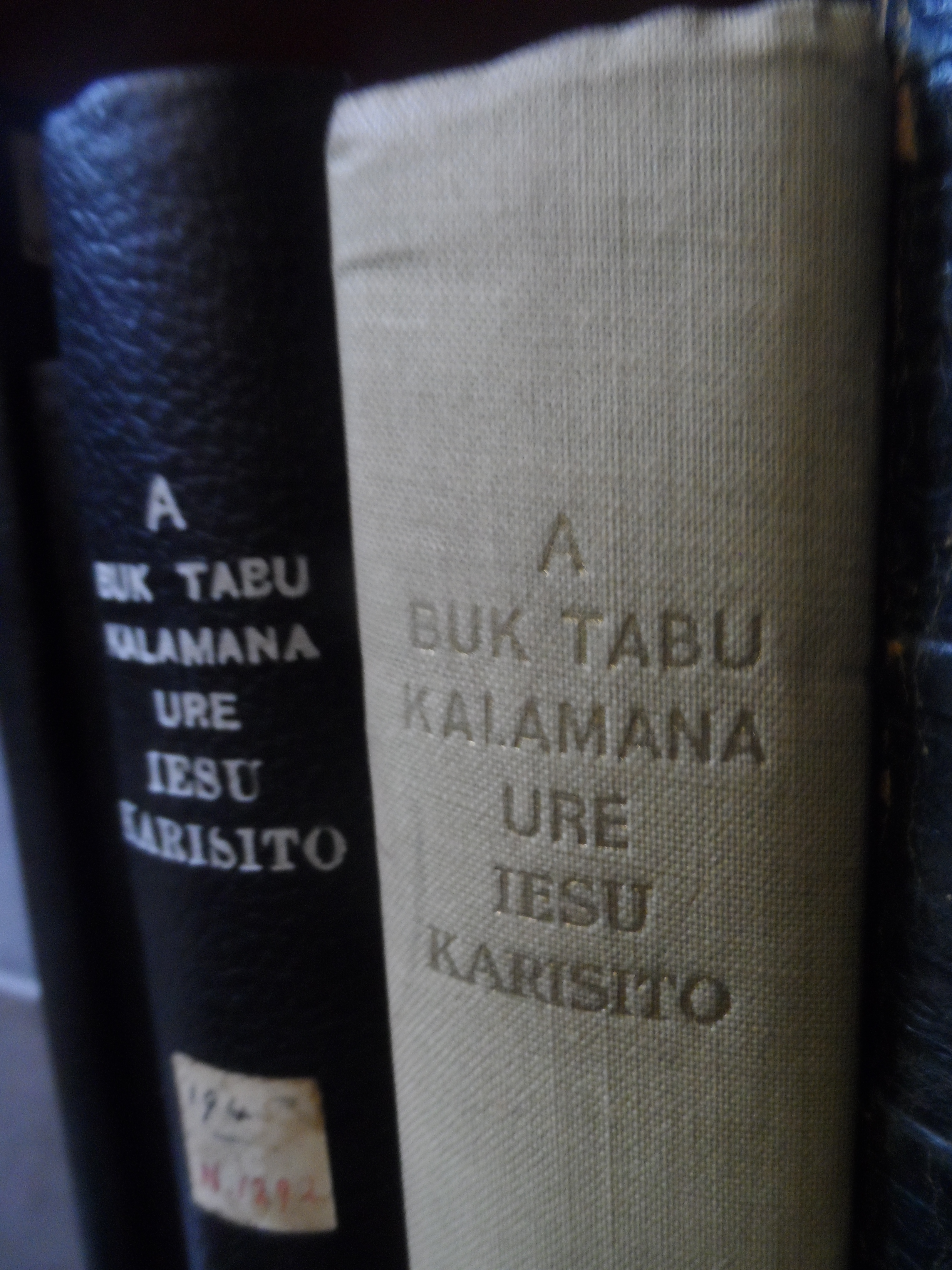 Bible in Tinata Tuna, Maynooth University